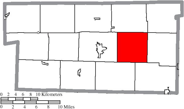 Map of the municipal and township boundaries of Holmes County, Ohio, United States, as of the 2000 census, with the location of Berlin Township highlighted. Township borders are shown only in unincorporated areas in order to differentiate incorporated and unincorporated areas more clearly.